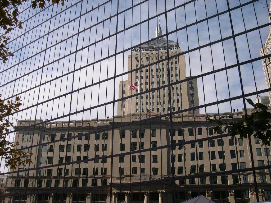 Three John Hancock buildings, Boston, MA, USA Creator: Stephen Foskett Date: October 29, 2004